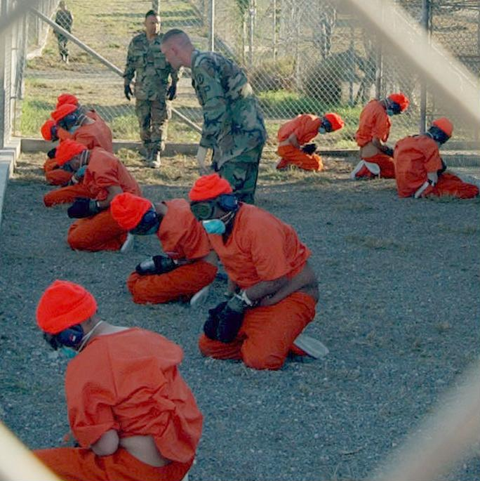 Detainees at Camp X-Ray Original caption: “Detainees in orange jumpsuits sit in a holding area under the watchful eyes of Military Police at Camp X-Ray at Naval Base Guantanamo Bay, Cuba, during in-processing to the temporary detention facility on Jan. 11, 2002. The detainees will be given a basic physical exam by a doctor, to include a chest x-ray and blood samples drawn to assess their health. DoD photo by Petty Officer 1st class Shane T. McCoy, U.S. Navy.”